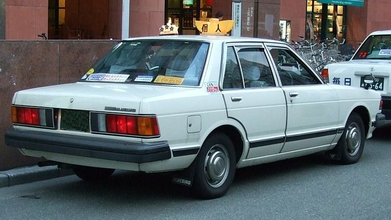 Nissan Bluebird (910) taxi (Japanese version) Location:in Fukuoka City, Fukuoka, Japan